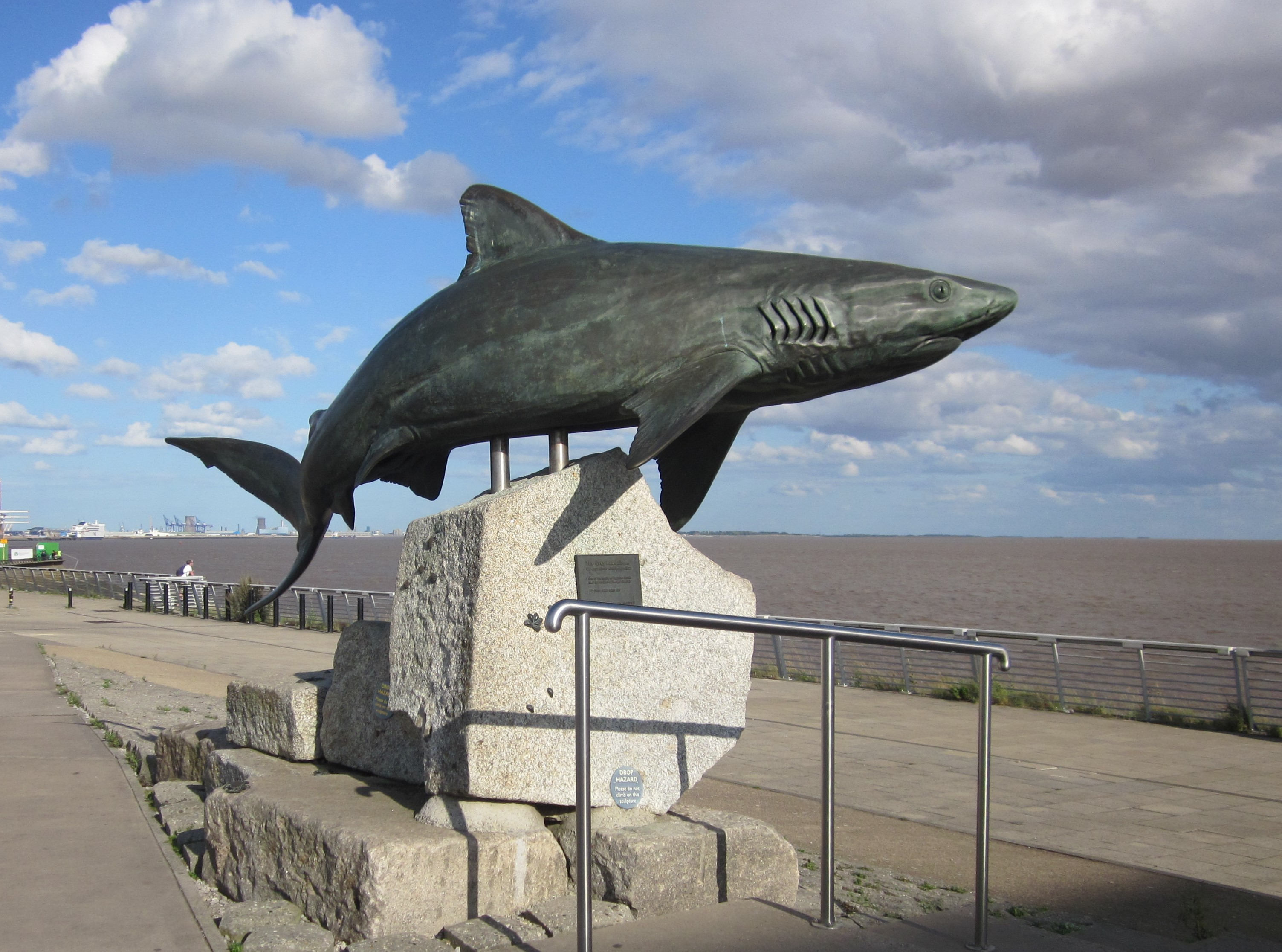 Sculpture of Grey Reef Shark, outside The Deep (aquarium) in Kingston-upon-Hull, UK